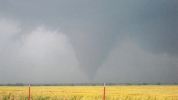 Christopher Williams, Wx5uuh, Douglas Tornado, May 24 2008